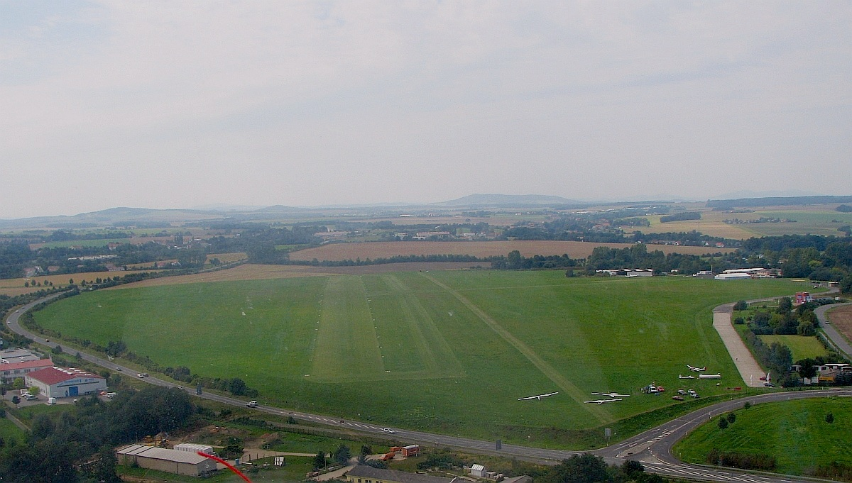 Görlitz airial photo approaching airfielf EDBX Saxony Germany Foto Wolfgang Pehlemann DSCN8134